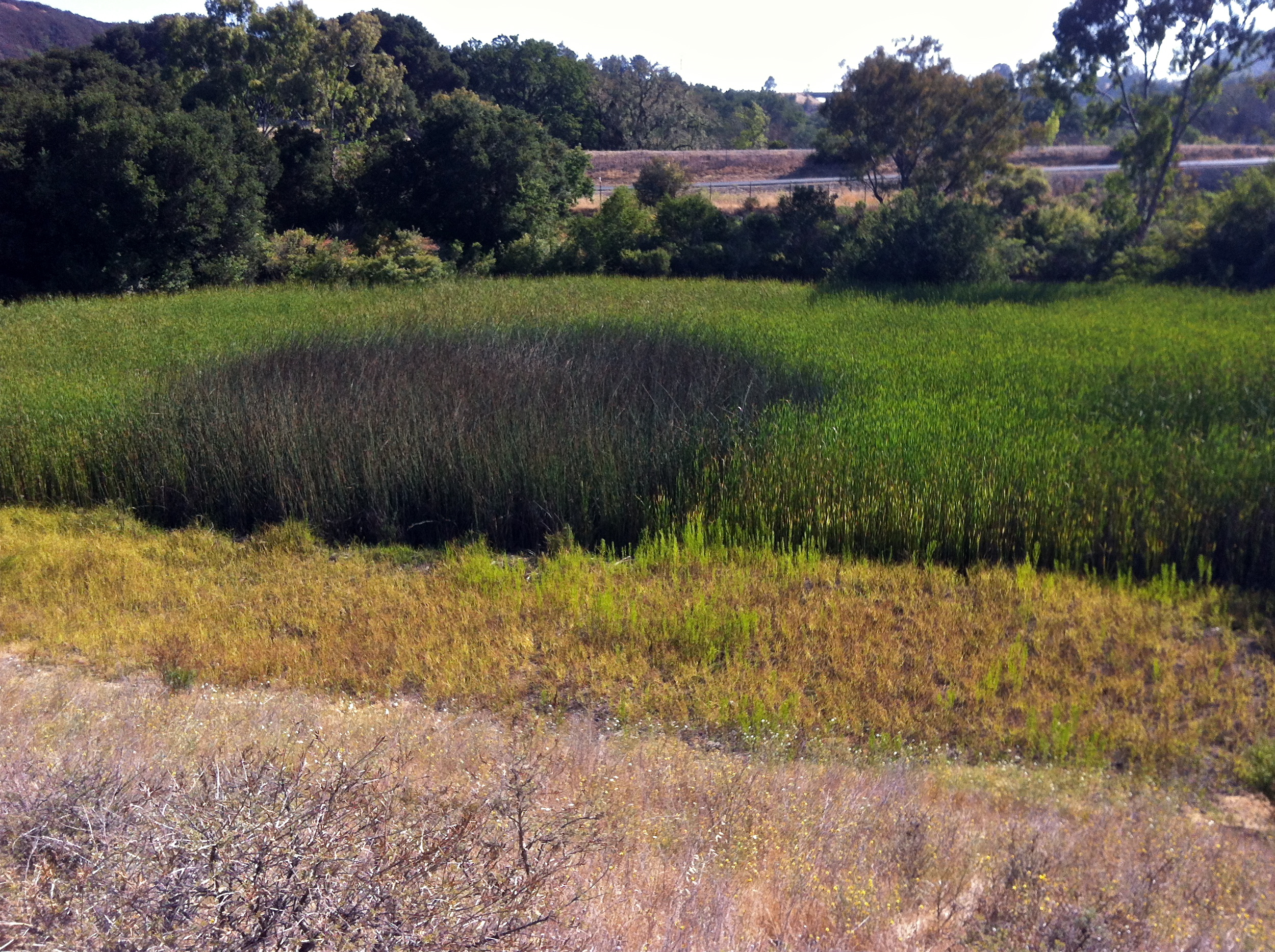 Sometime after 1950 two earthen dams on Laguna Creek, just above and just below Canada Road at Edgewood Road, were built to store water for fire-fighting. This image is of the lower reservoir.